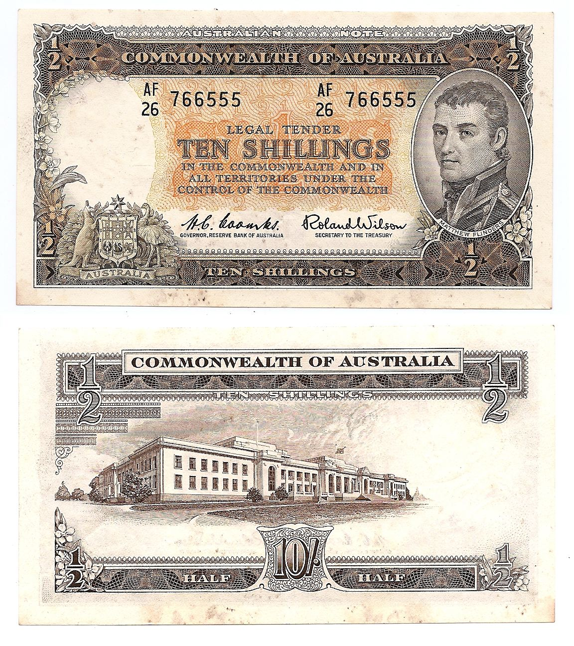 Flinders, Matthew, Navigator & Explorer, 1774 Donington, Lincolnshire, England - 1814 London, England 10 Shillings Commonwealth of Australia. Coombs, "GOVERNOR, RESERVE BANK OF AUSTRALIA" - Wilson. Bust of Flinders at r., watermark Captain James Cook / Parliament House in Canberra. Pick 33. Condition: An almost UNCIRCULATED bank note